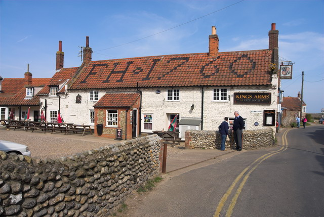 Kings Arms, Blakeney